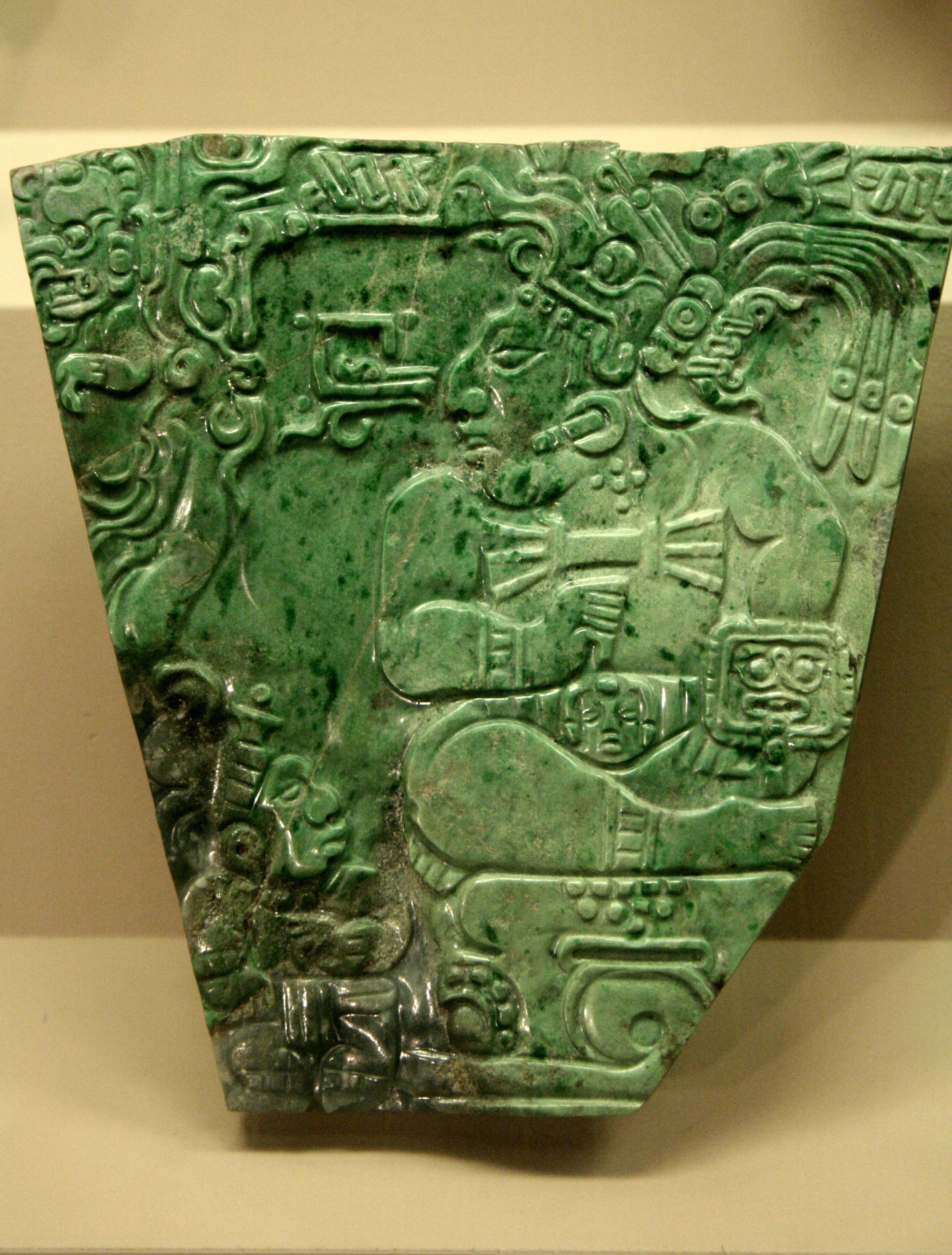 Jade plaque of a Maya king. Classic Period. Found at Teotihuacan. British Museum